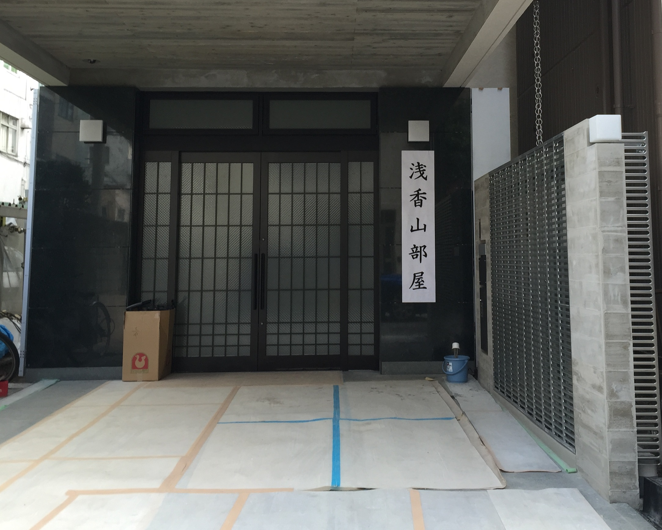 the front door of the newly established stable